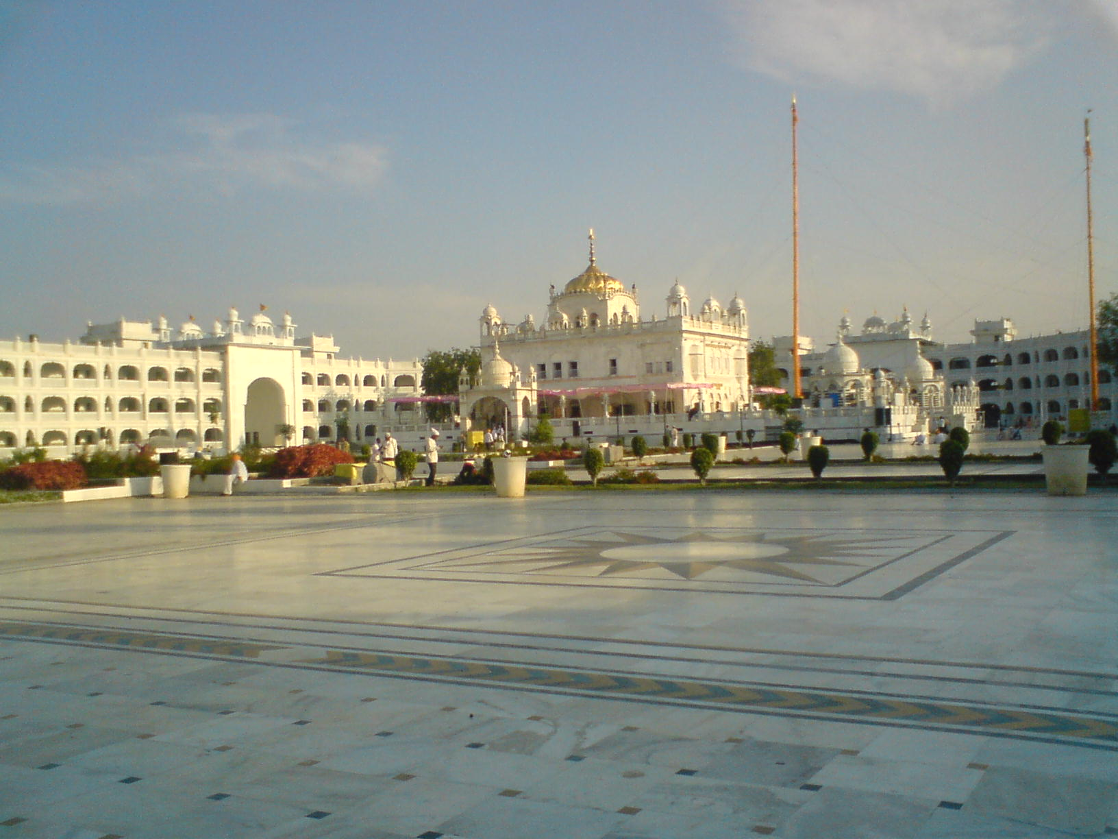 Its the holy gurudwara of nanded, a beautiful site to be at.